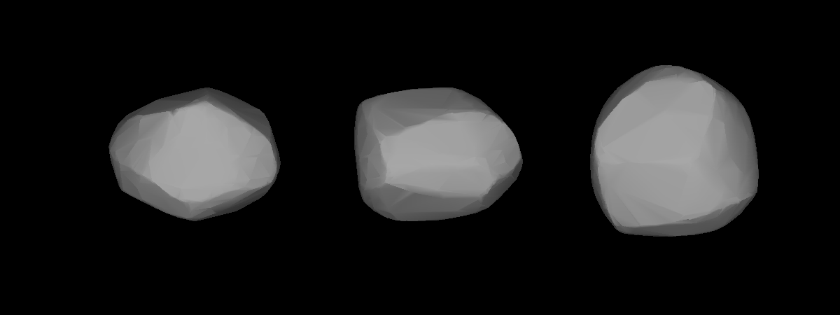 Three-dimensional model of 56 Melete created based on light-curve.